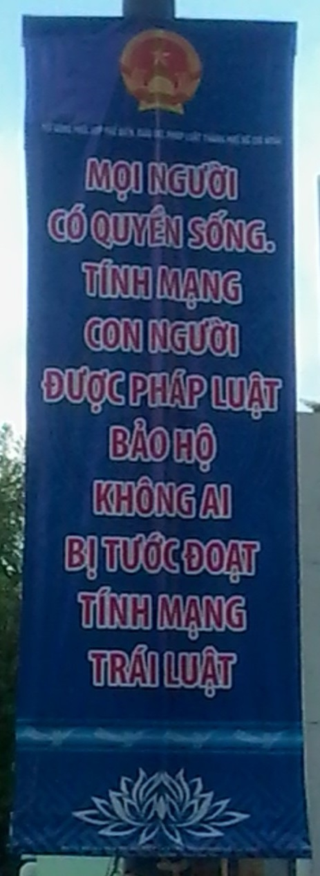 human right propaganda in Vietnam